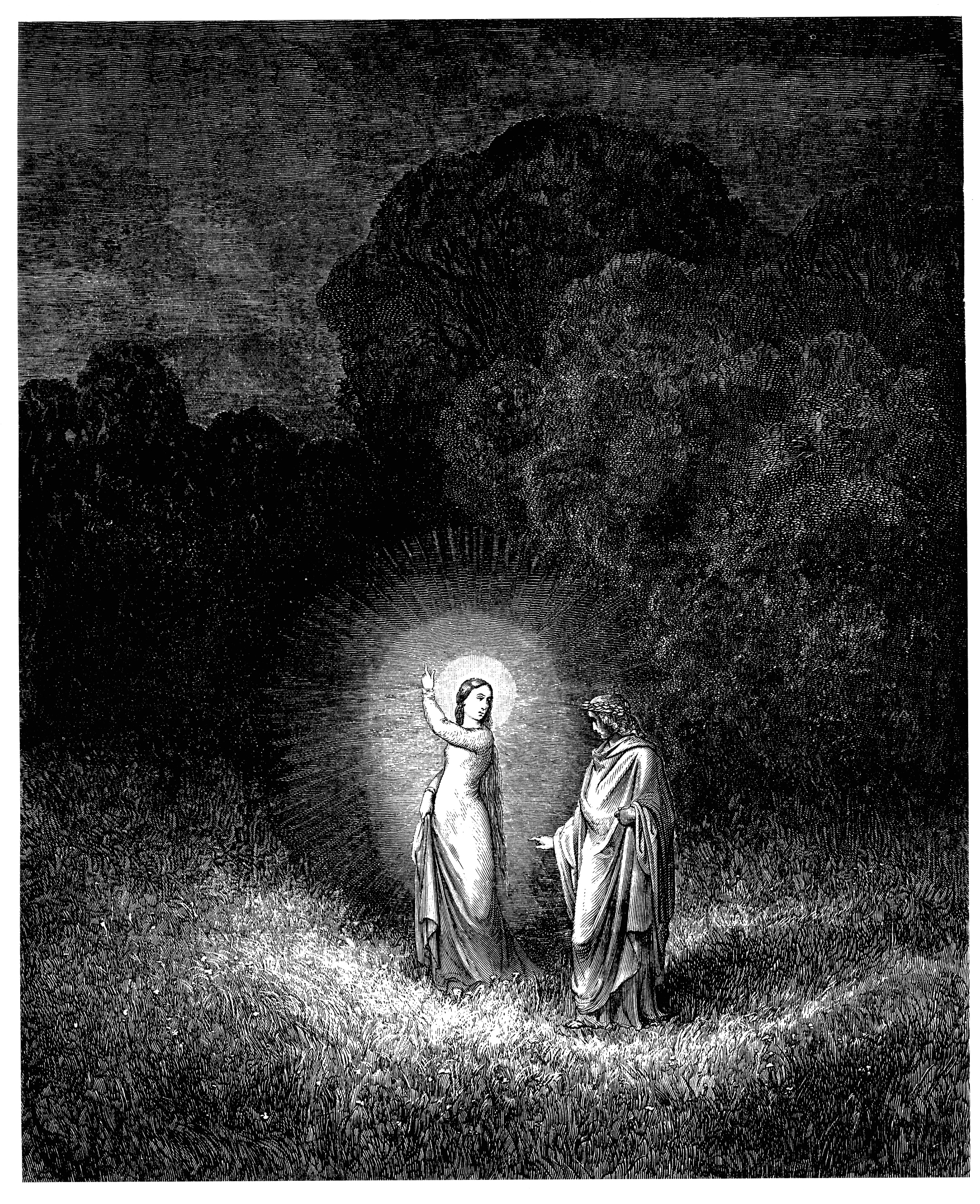 Gustave Doré's illustration to Dante's Inferno. Plate VII: Canto II: "Beatrice am I, who do bid thee go" (Longfellow's translation)